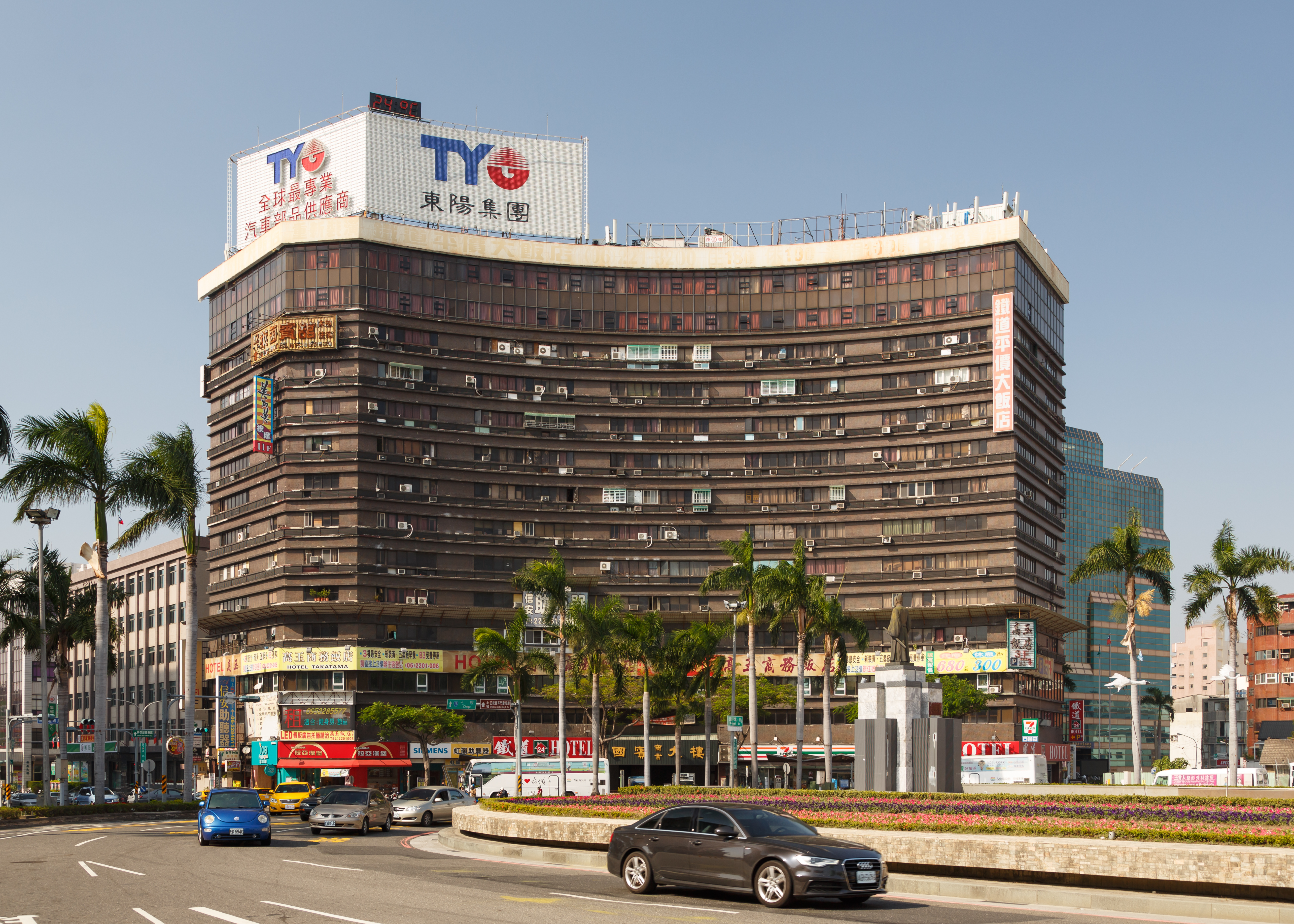 Tainan, Taiwan: China Daily News Ambassador Commercial Building.